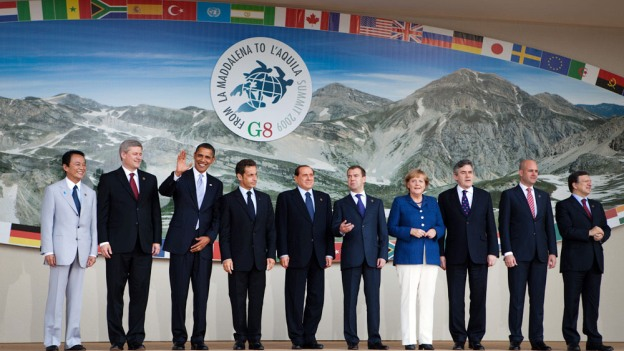 All eight members of the G-8 at their summit in Italy in July 2009. From left to right: Prime Minister of Japan Taro Aso, Prime Minister of Canada Stephen Harper, President of the United States Barack Obama, President of France Nicolas Sarkozy, Prime Minister of Italy Silvio Berlusconi, President of Russisa Dmitry Medvedev, Chancellor of Germany Angela Merkel, Prime Minister of the United Kingdom Gordon Brown, Prime Minister of Sweden Fredrik Reinfeldt, and President of the European Commision José Manuel Barroso.